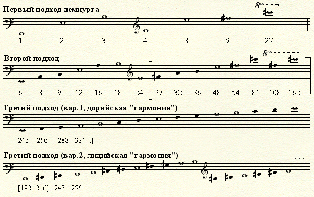 Musical reconstruction of Platon's Word-Soul